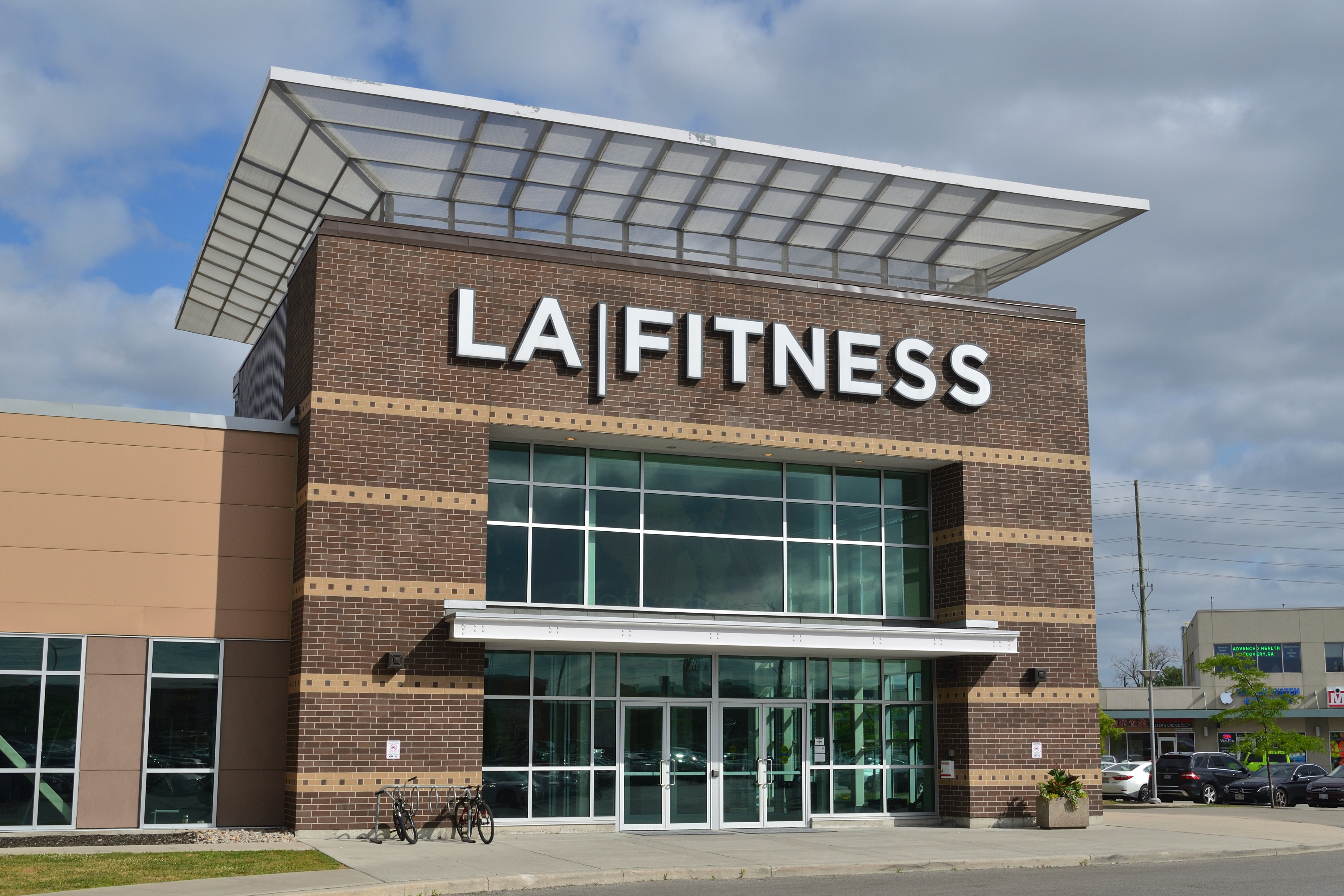 LA Fitness, 8555 Woodbine Ave, Markham, ON L3R 4X9